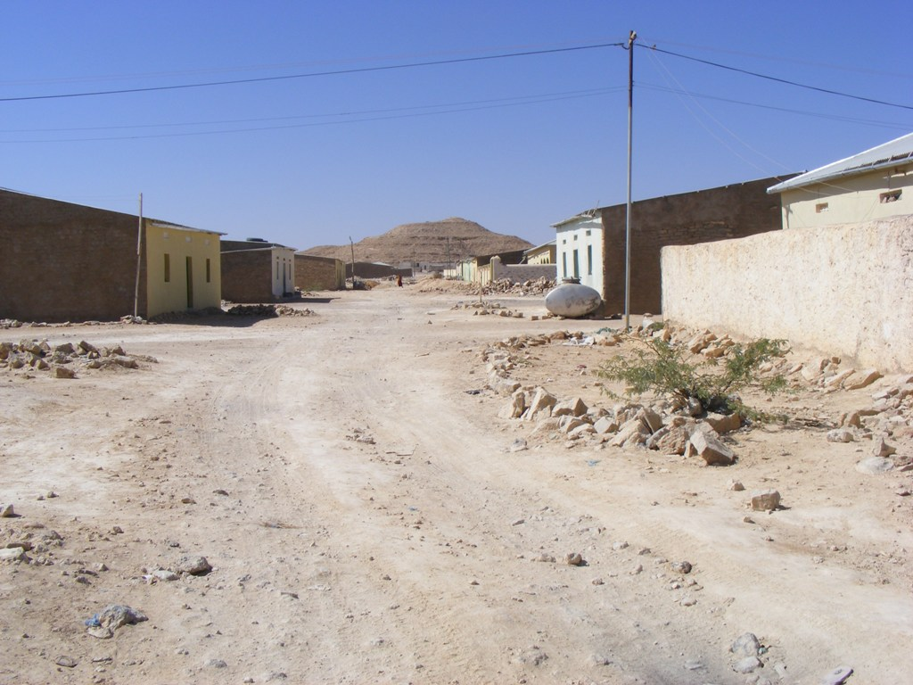 Street view of the Qudloho neighbourhood in Badhan, Somalia.